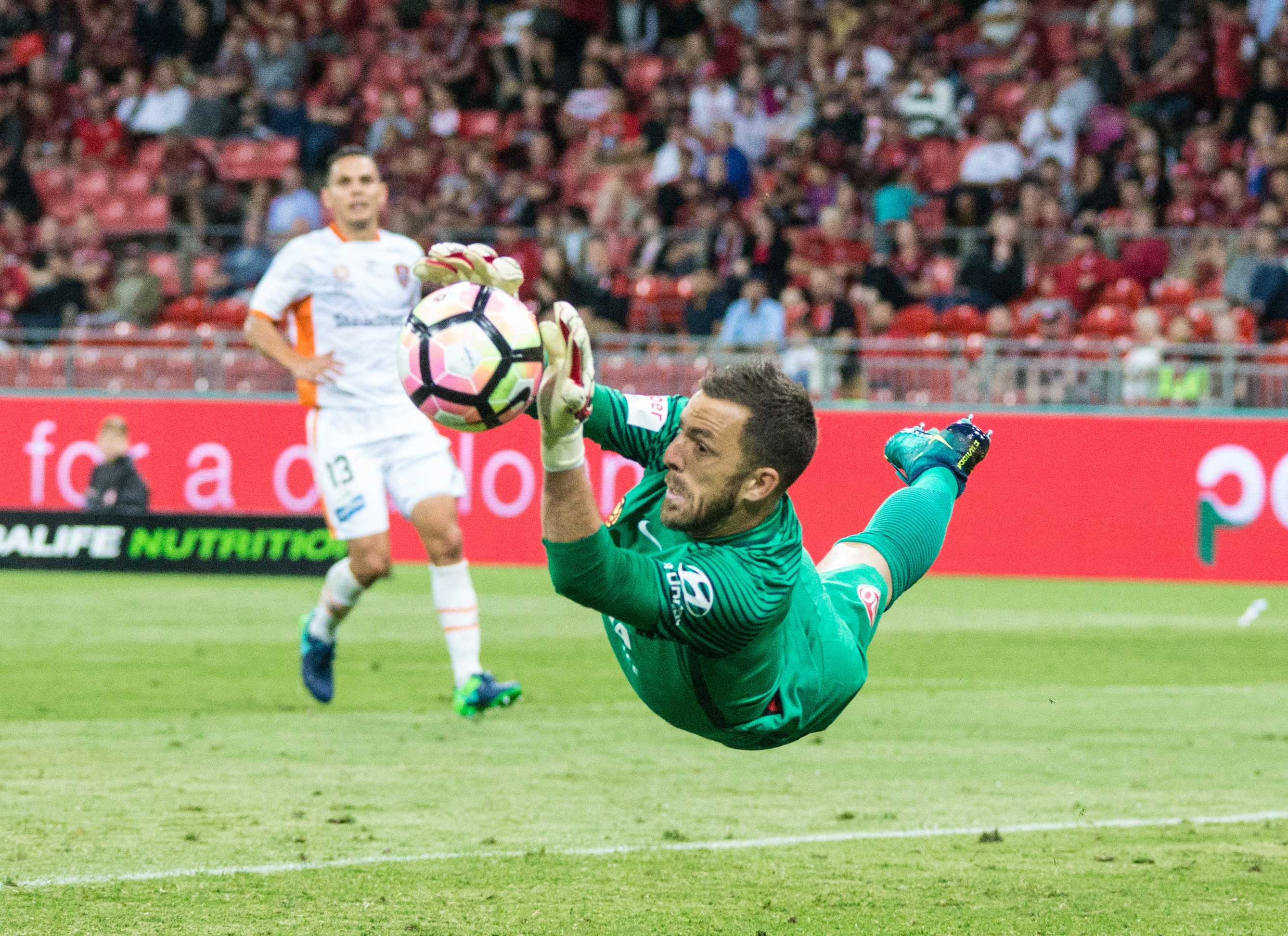 Jerrad Tyson makes a diving save